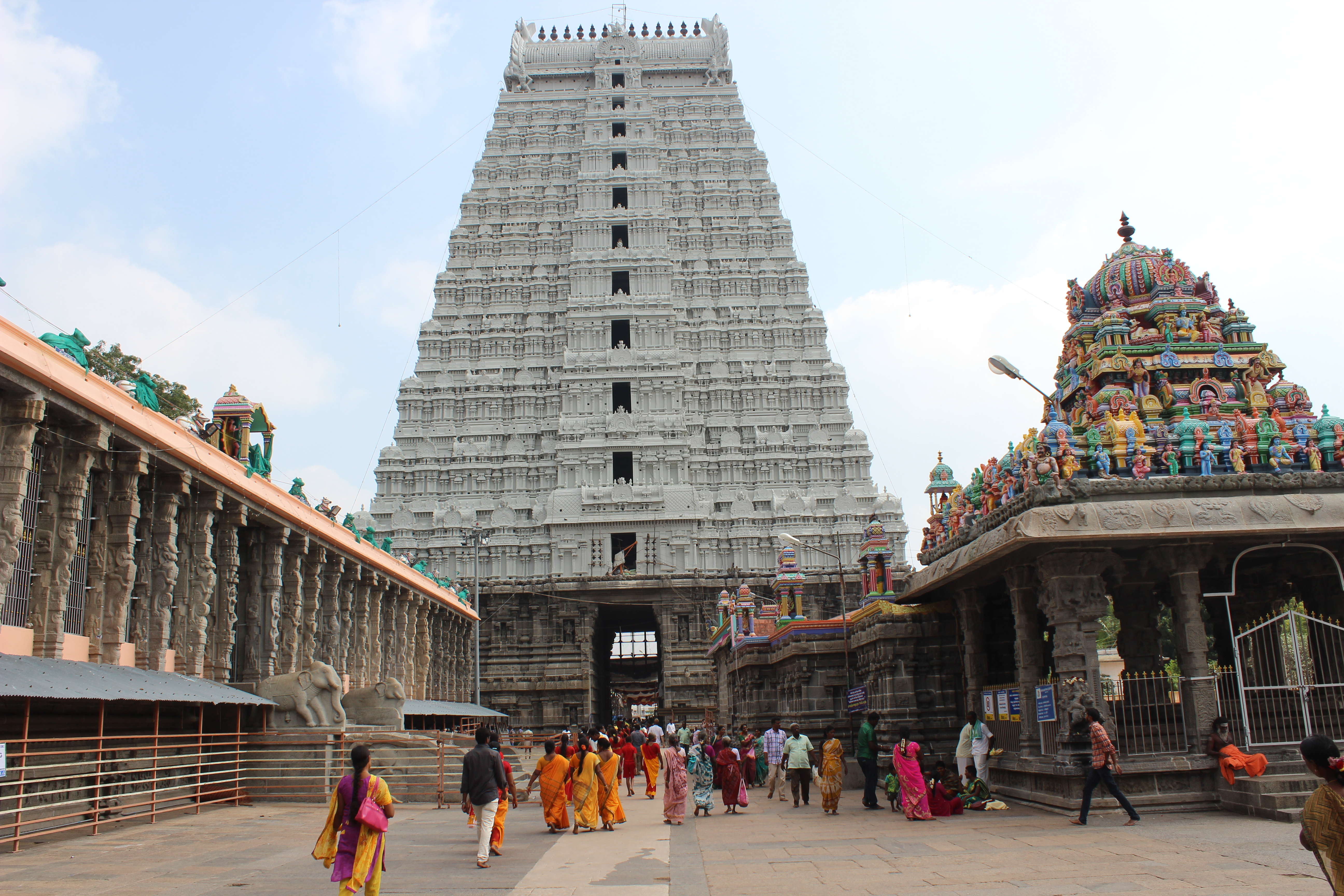 Thiruvannamalai Annamalaiyar Temple Gopuram and Mandapam View